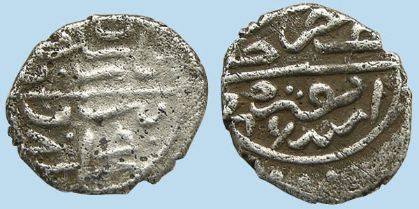 coin (akçe) from the period of Ottoman Sultan Bayezid II, minted in Ankara. Front of coin: "SULTAN BEYAZID BİN MEHMED HAN", back: "AZZE NASRUHU DURİBE ANKARA SENE 886"